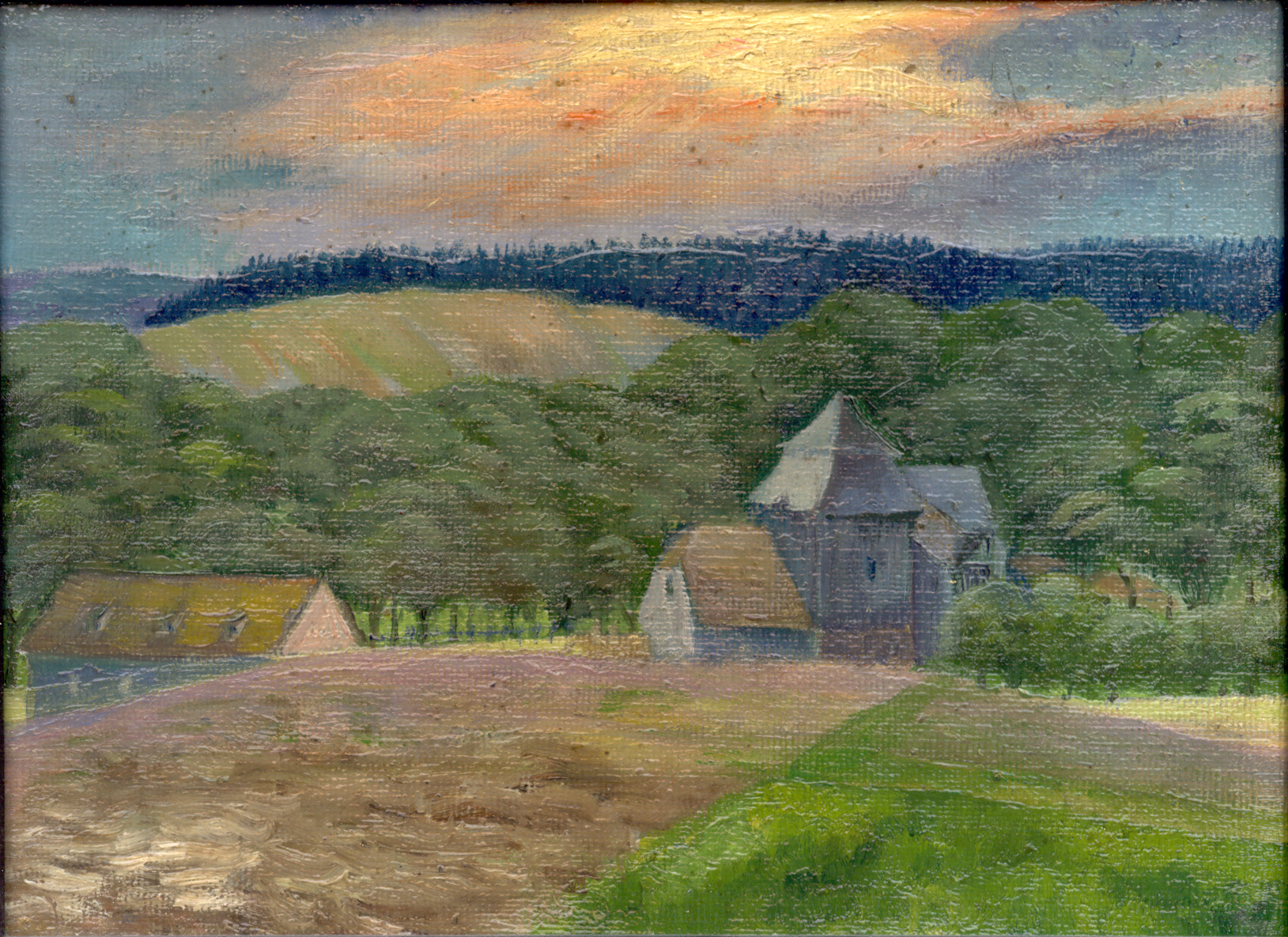 Oil painting of the German painter Ernst Schunke, showing the "Schwarzfarbe" in Schleiz/Thuringia (1918)